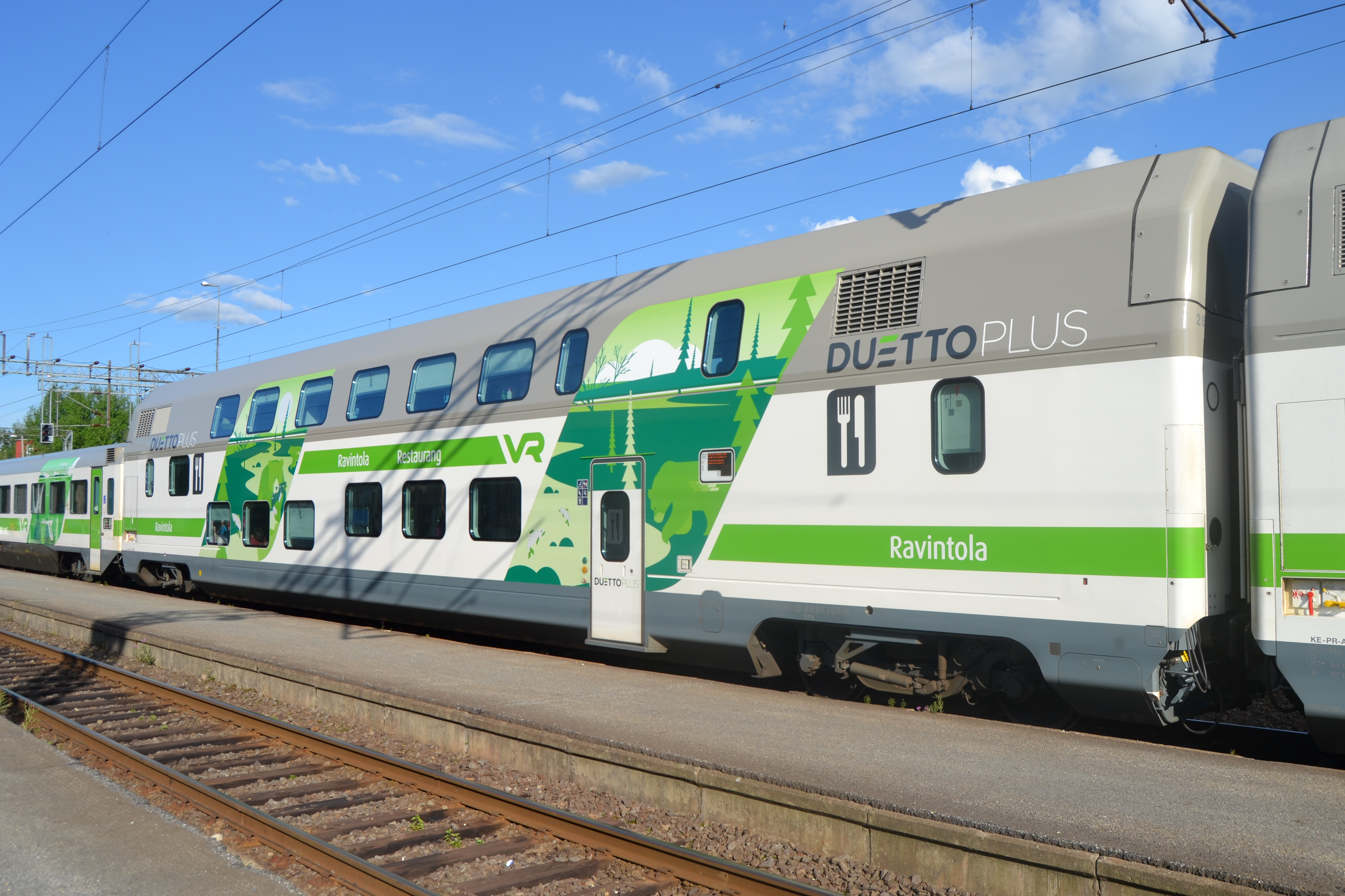 ERd double-decker dining car in Finland